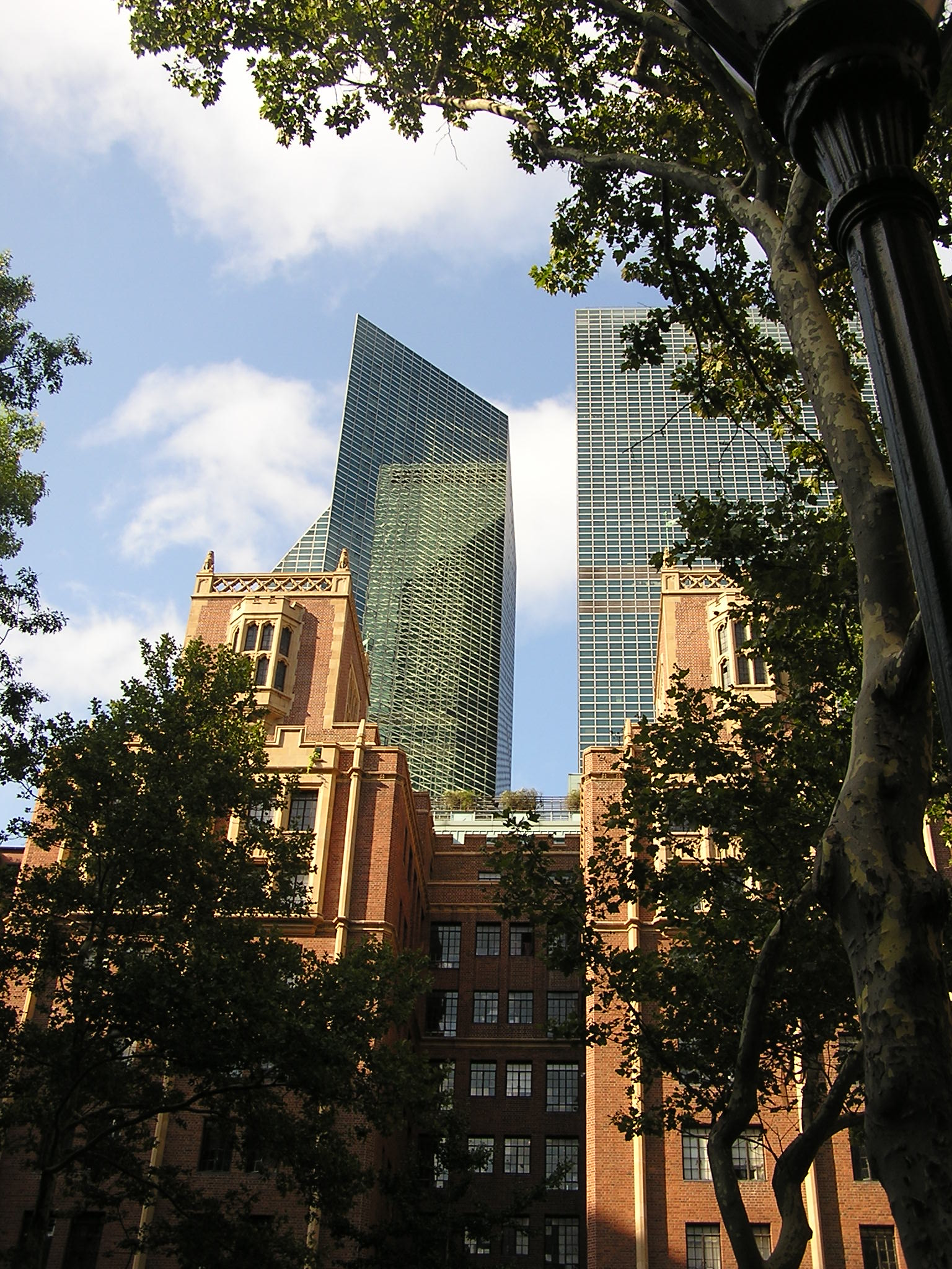 Looking north at northern buildings of Tudor City from Tudor City Place.